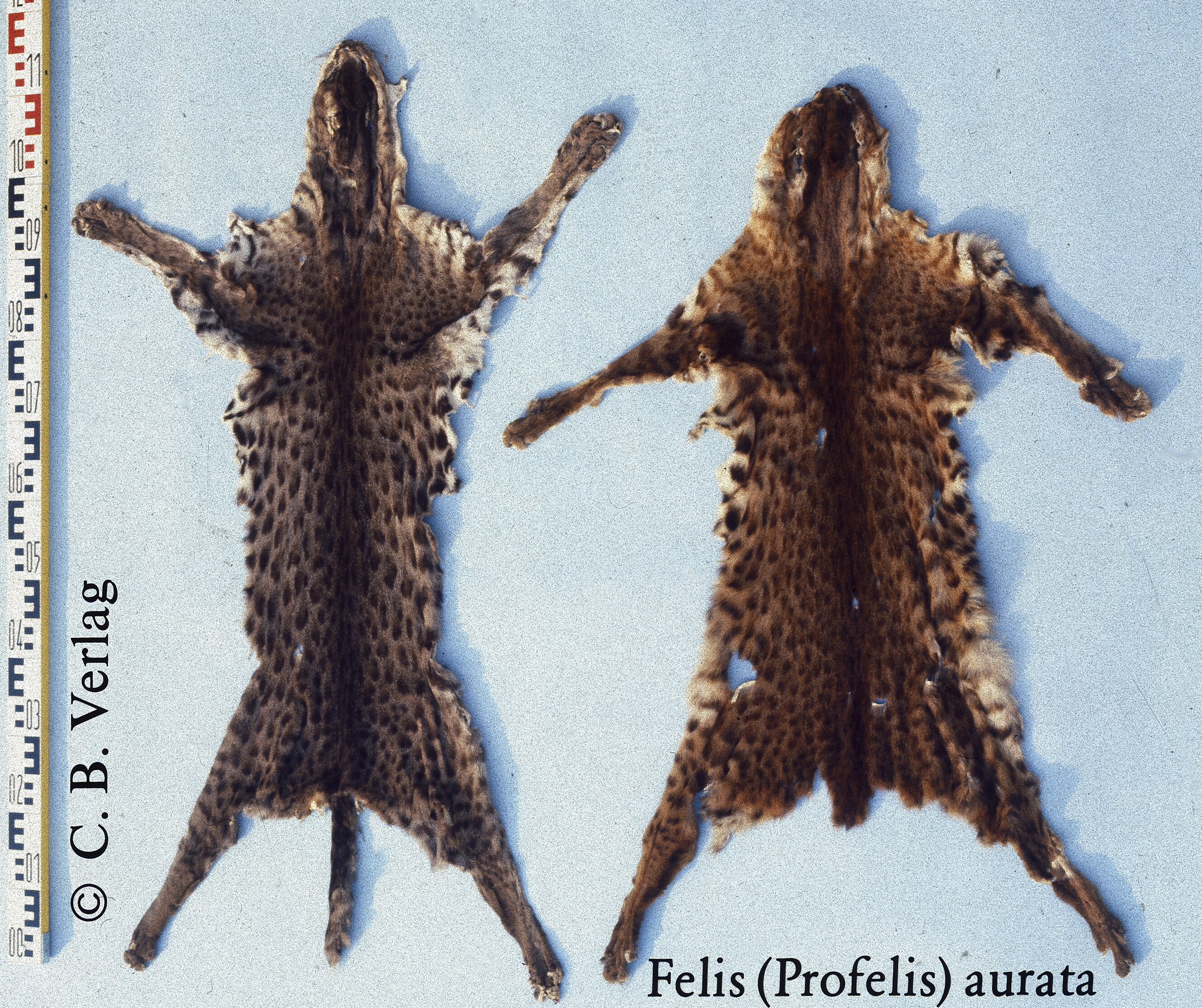 African golden cat fur skins (Profelis aurata). Fur skin collection, Bundes-Pelzfachschule, Frankfurt/Main, Germany